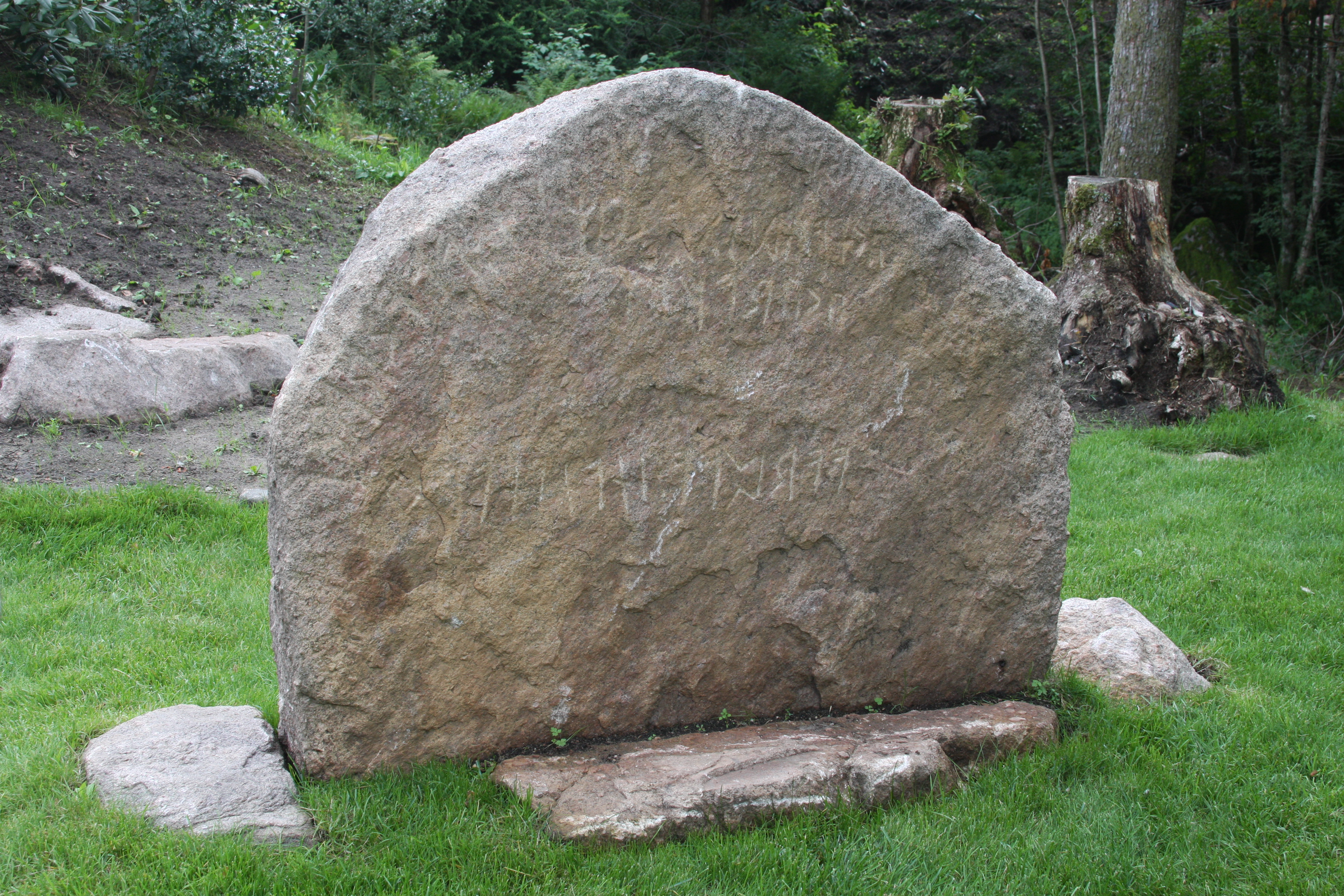 The Hogganvik stone, Mandal, Norway. 1.700 years old. Old runic alphabete applied.